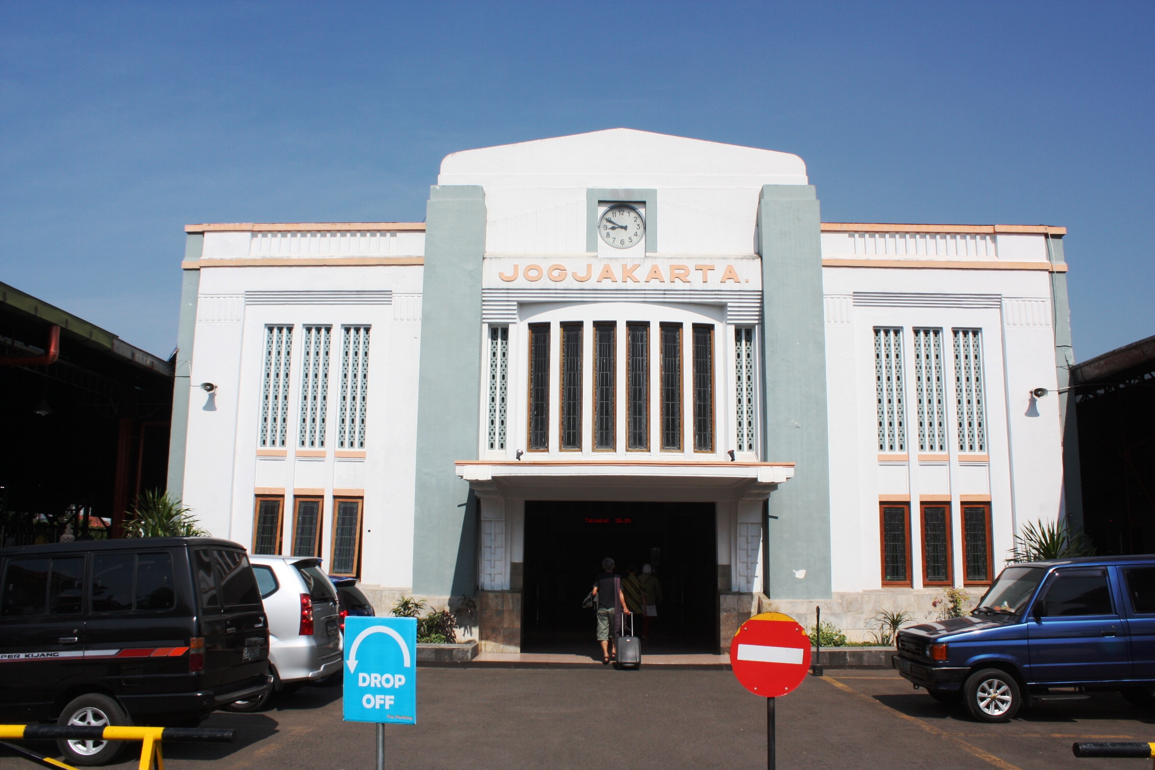 Tugu Station, Yogyakarta, Indonesia.